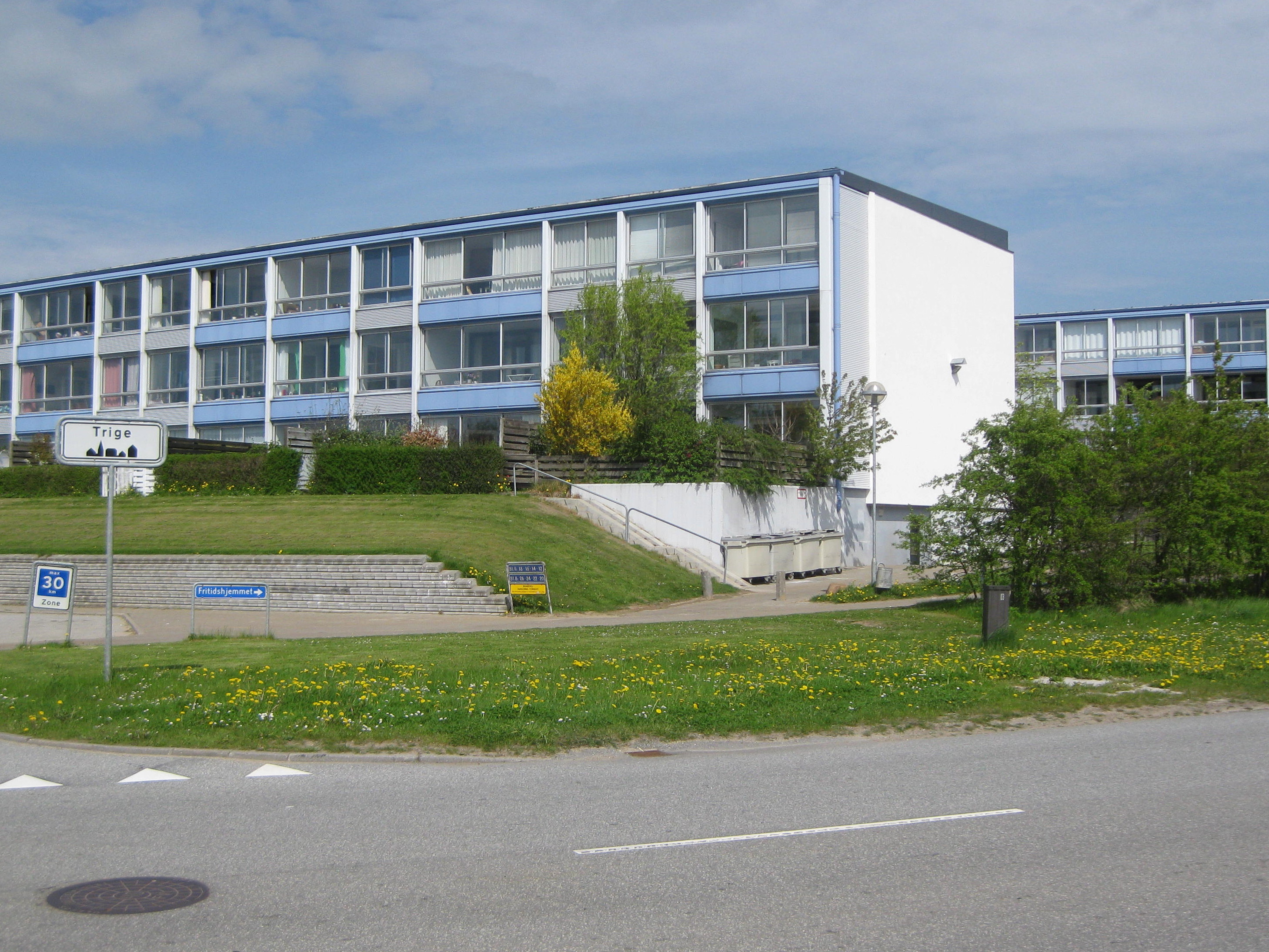 The block of flats area "Trigeparken" in the small town "Trige" north of Aarhus. The town is located in East Jutland, Denmark.